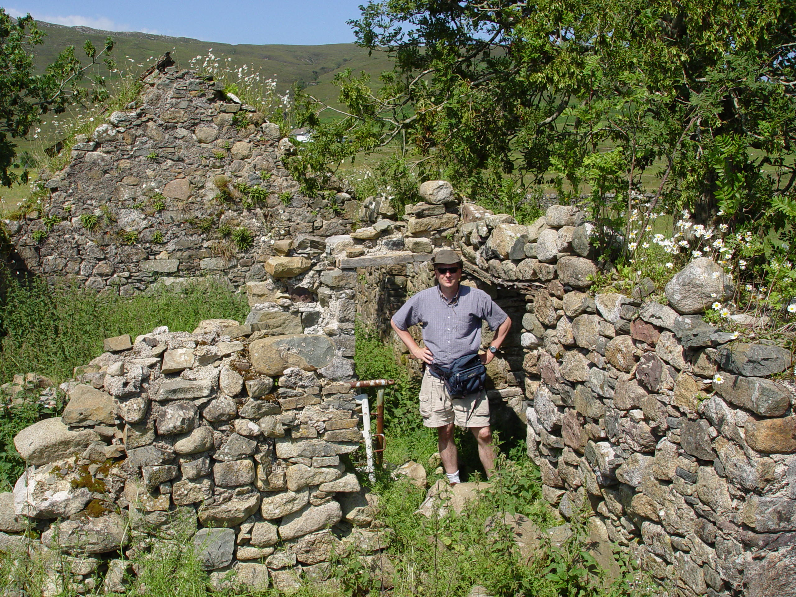 Ground level of with man for scale at Corriechatachan, Isle of Skye, Scotland. The 18th century house is now incorporated into a sheep fank. Contemporary descriptions describe it as a fine 2 story structure.